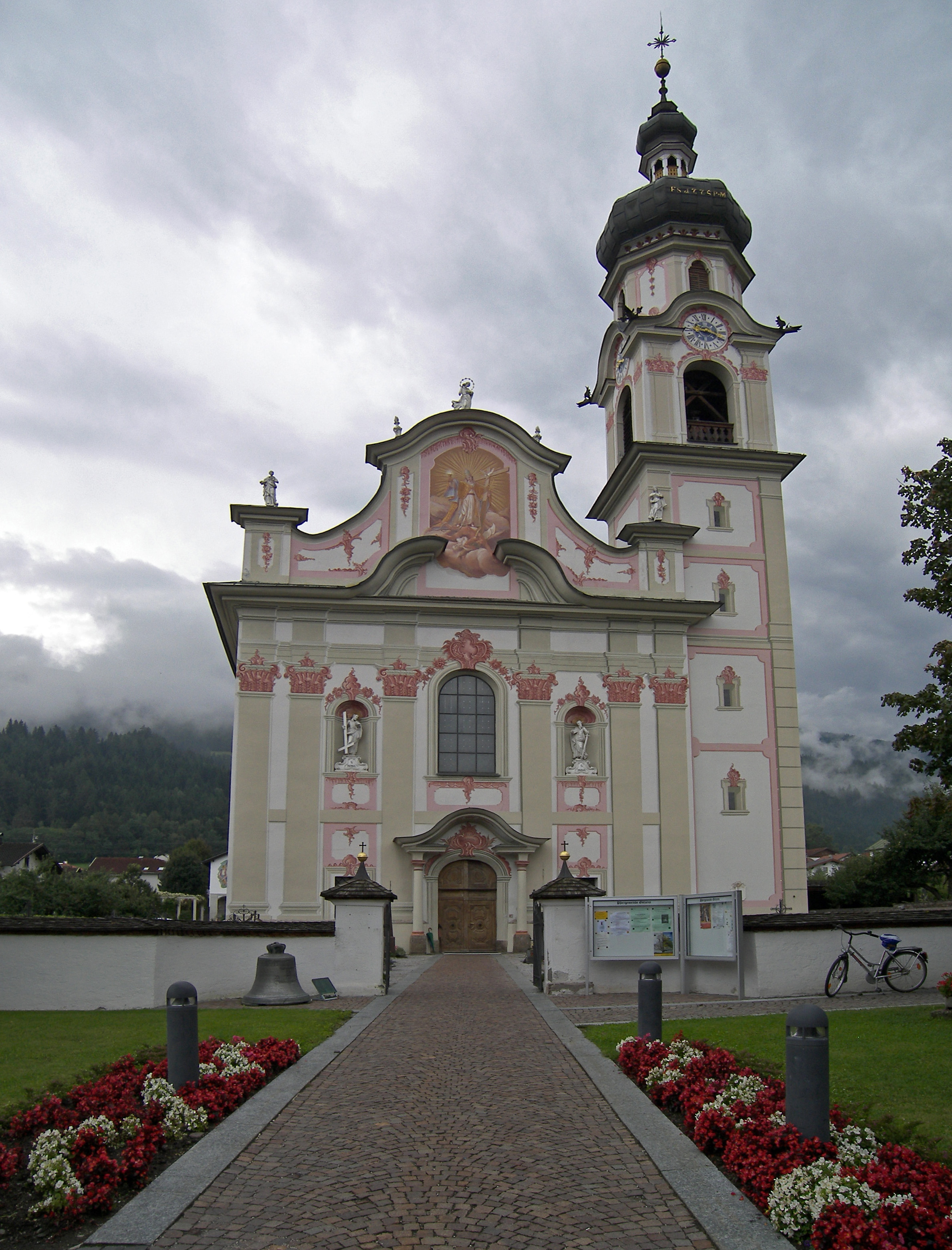 Parish church Saints Peter and Paul in Götzens, Tyrol, was built from 1772 and 1775, baroque style